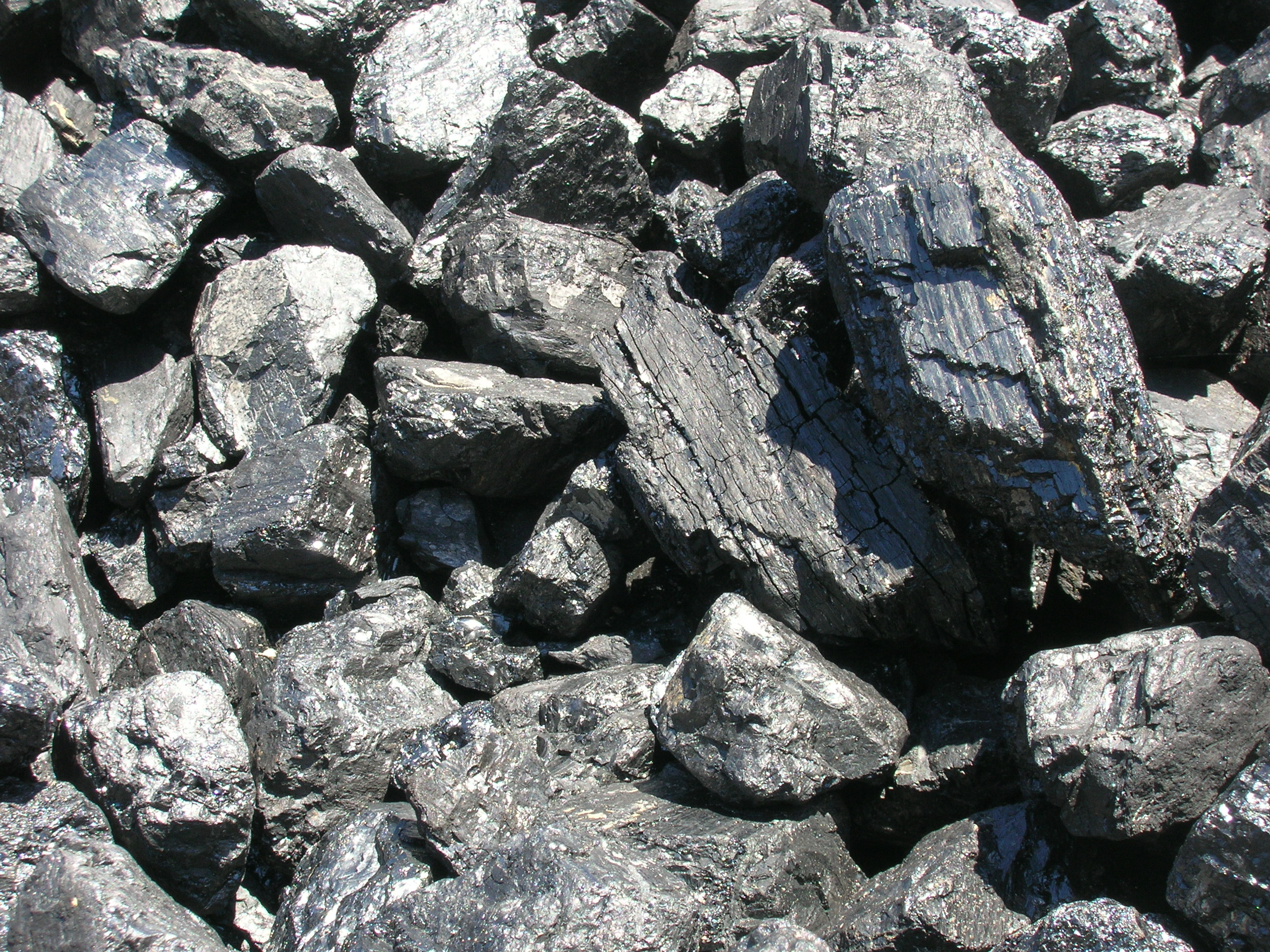 Lump coal. Jaroměřice nad Rokytnou coal store